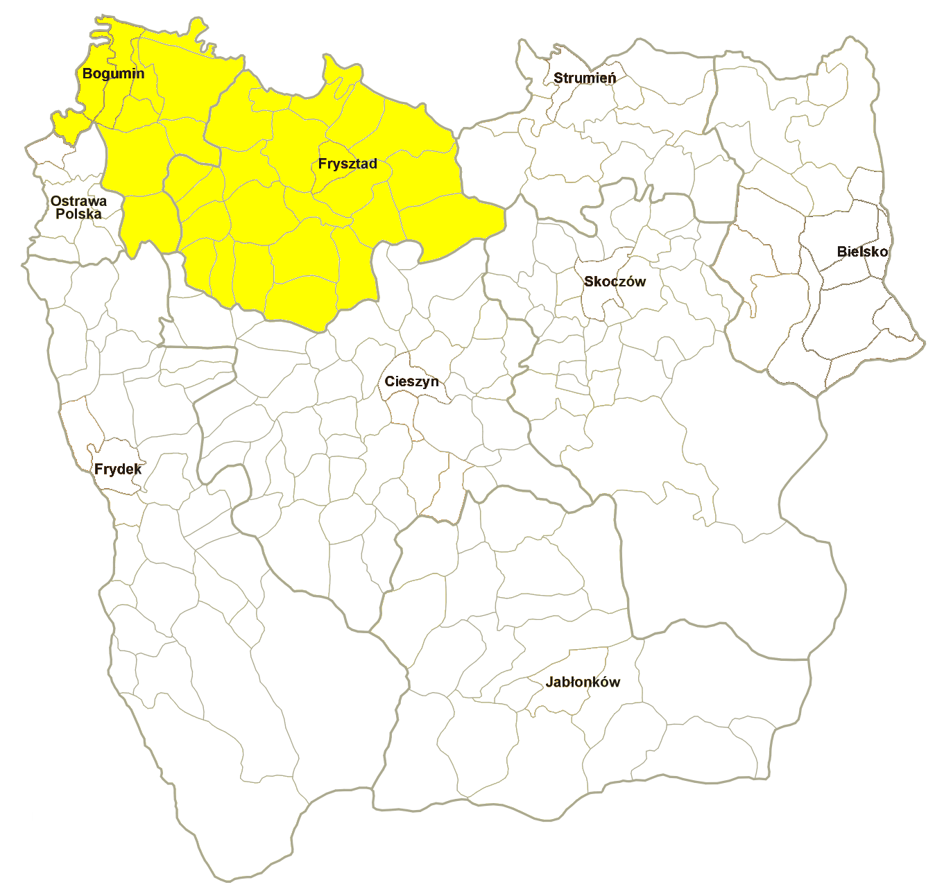 Freistadt Political County in 1910 in eastern part of Austrian Silesia (Cieszyn Silesia)